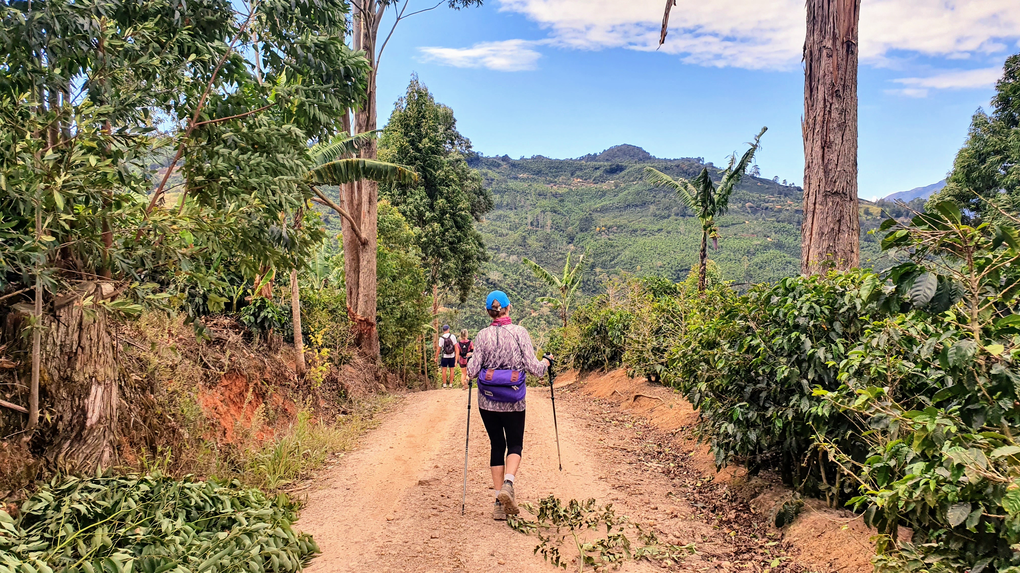 Hikers on the Camino de Costa Rica across coffee plantations